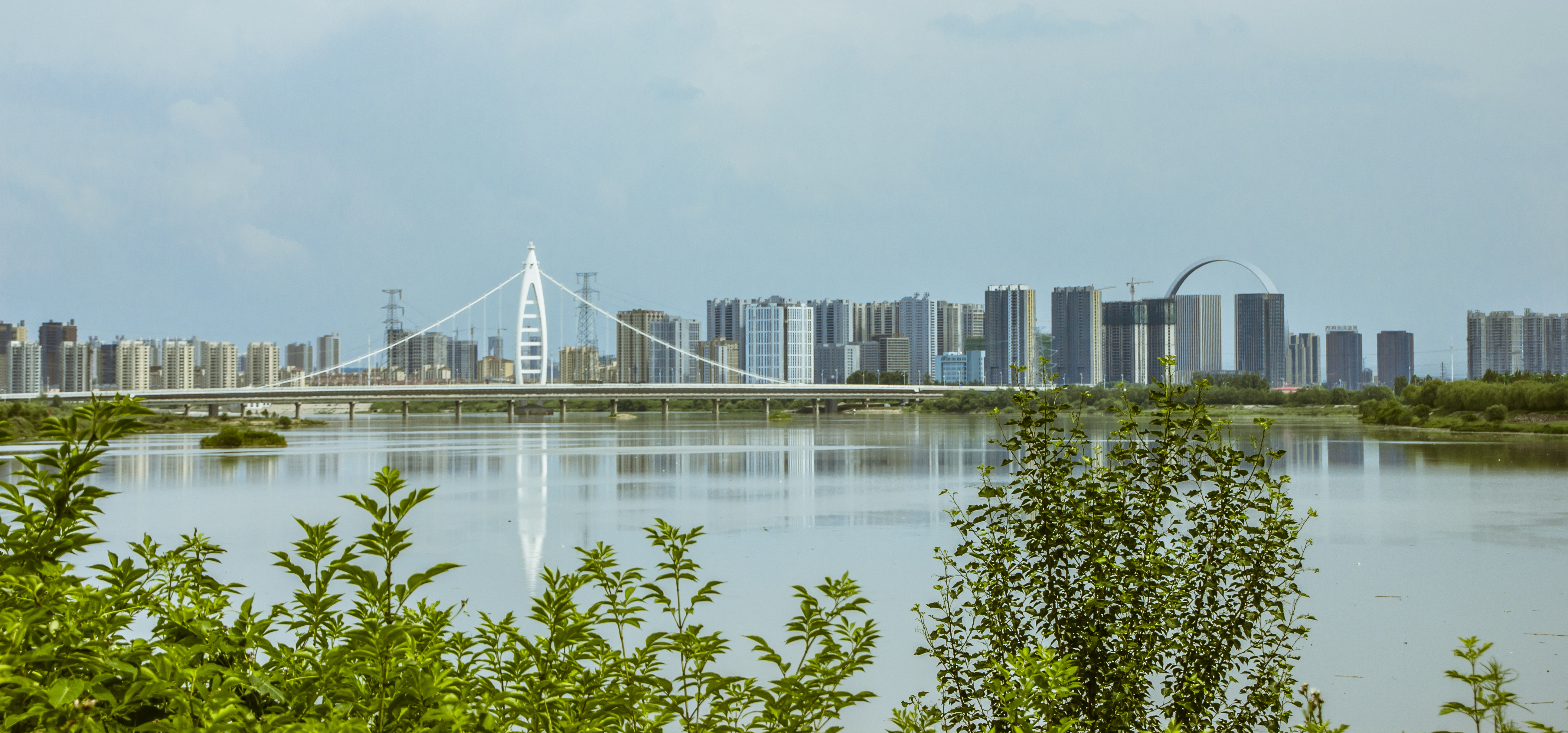 Skyline of Fushun seen from the North West